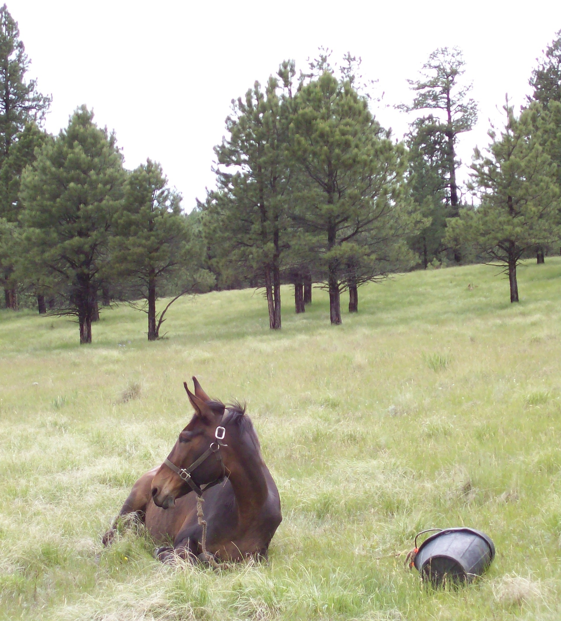 A mule resting in Valle Jaramillo, Valles Caldera National Preserve (VCNP), during an endurance race. Throughout the VCNP the valles (grass valleys) appear groomed. Although the grass appears abundant, it is a limited resource. Its growing season is short, it feeds cattle in the summer and elk all year, and during most of the year its nutritional value is low.